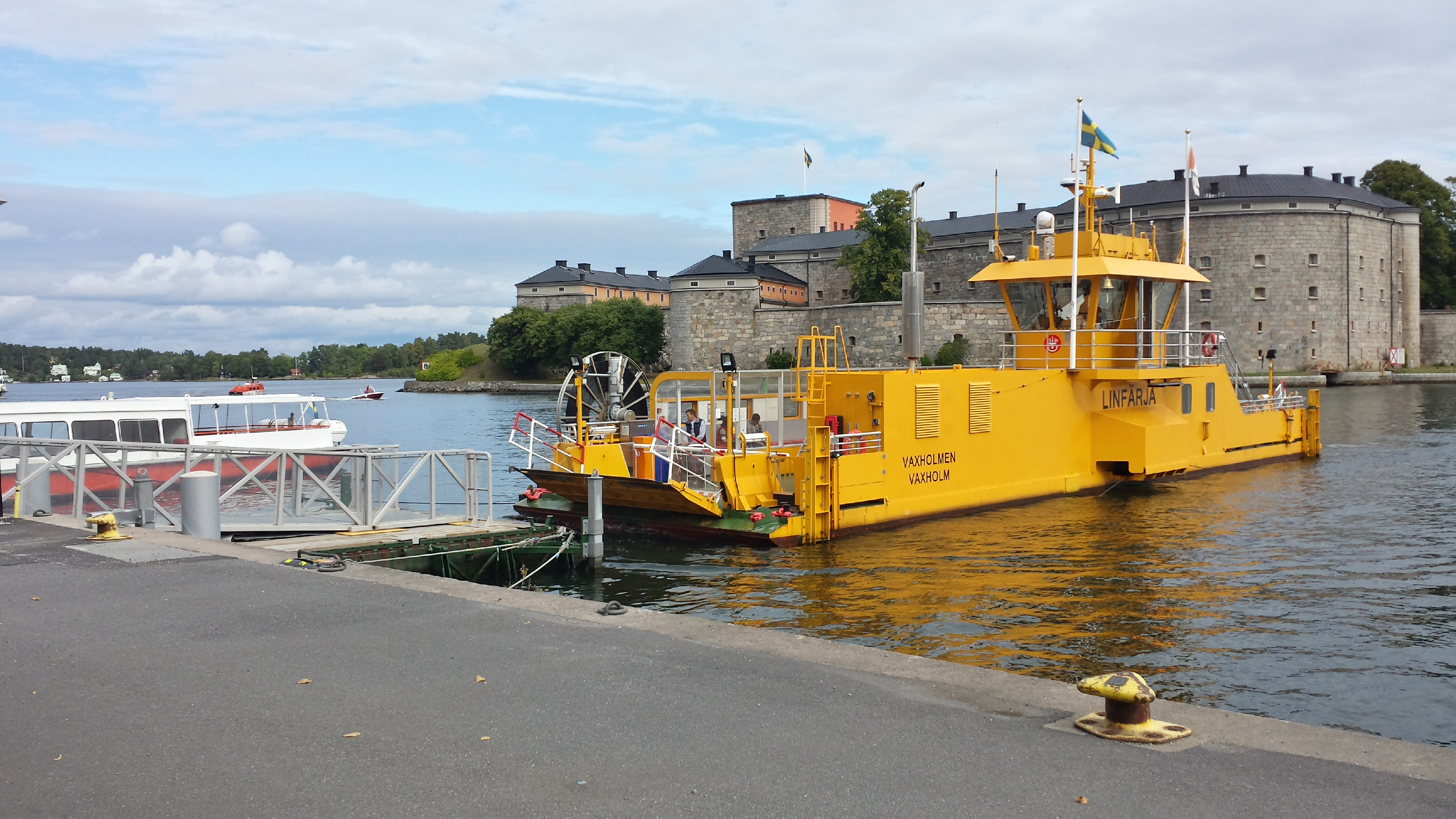 The Kastelletleden cable ferry at Vaxholm is Sweden's Stockholm archipelago. Vaxholm Castle can be seen in the background.